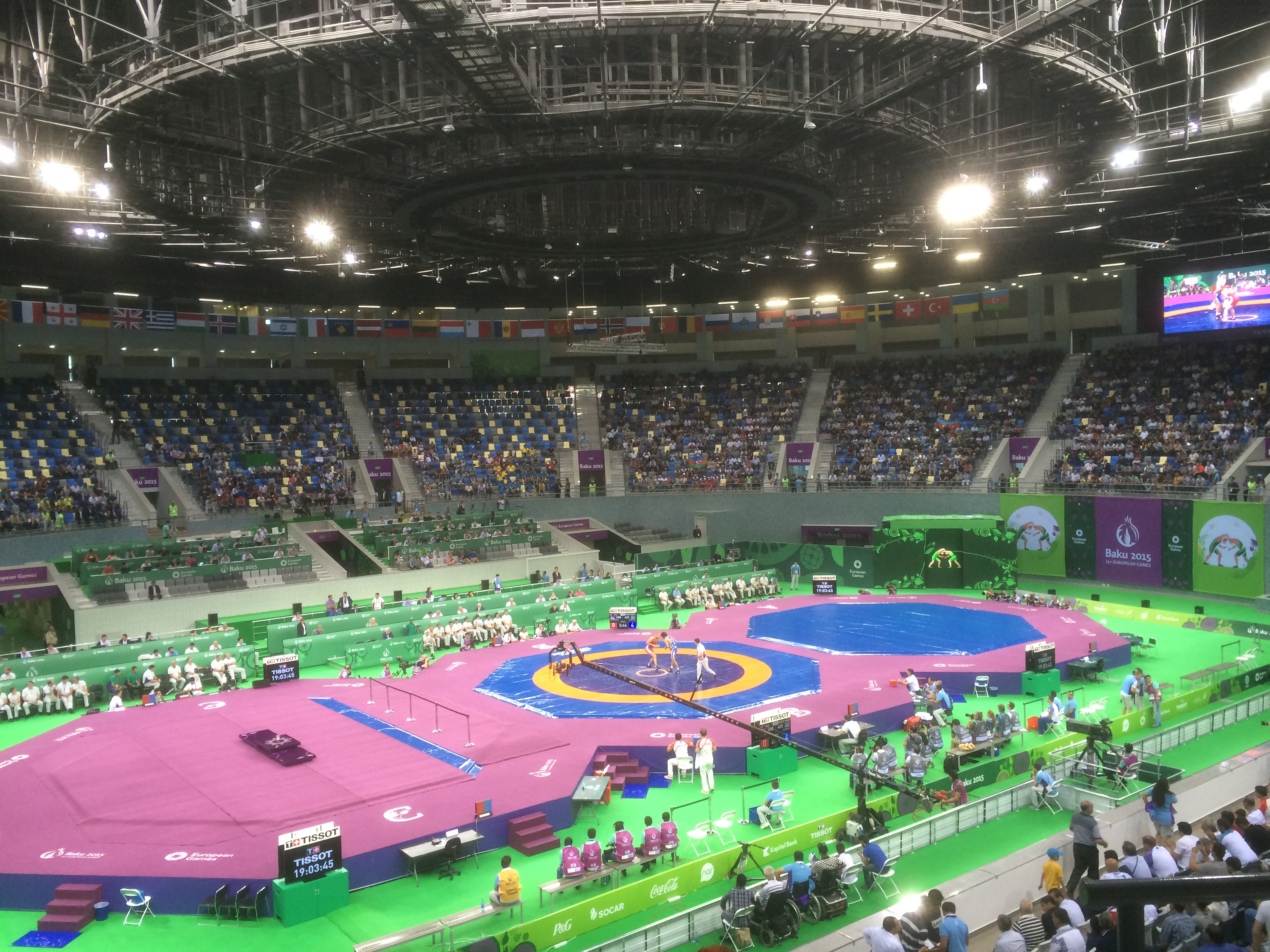 Baku 2015 European Games, wrestling tournament, Heyder Aliyev Arena